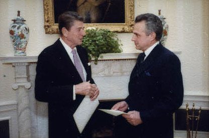 Ceremony to receive Diplomatic Credentials from Esteban Arpad Takacs Ambassador of Argentina.